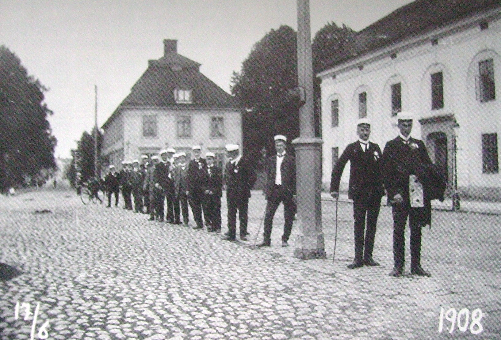 Picture of students at Stora torget in Nyköping